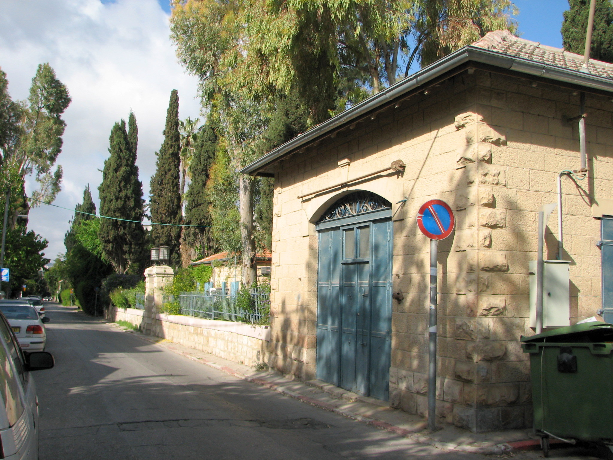 Greek Colony, Jerusalem המושבה היוונית בירושלים This image was taken as part of the Elef Millim project trip to Herodion, which was held on Friday, 9th April 2010. To view all images uploaded as part of the Elef Millim Project המועדון היווני יהושע בן נון 8